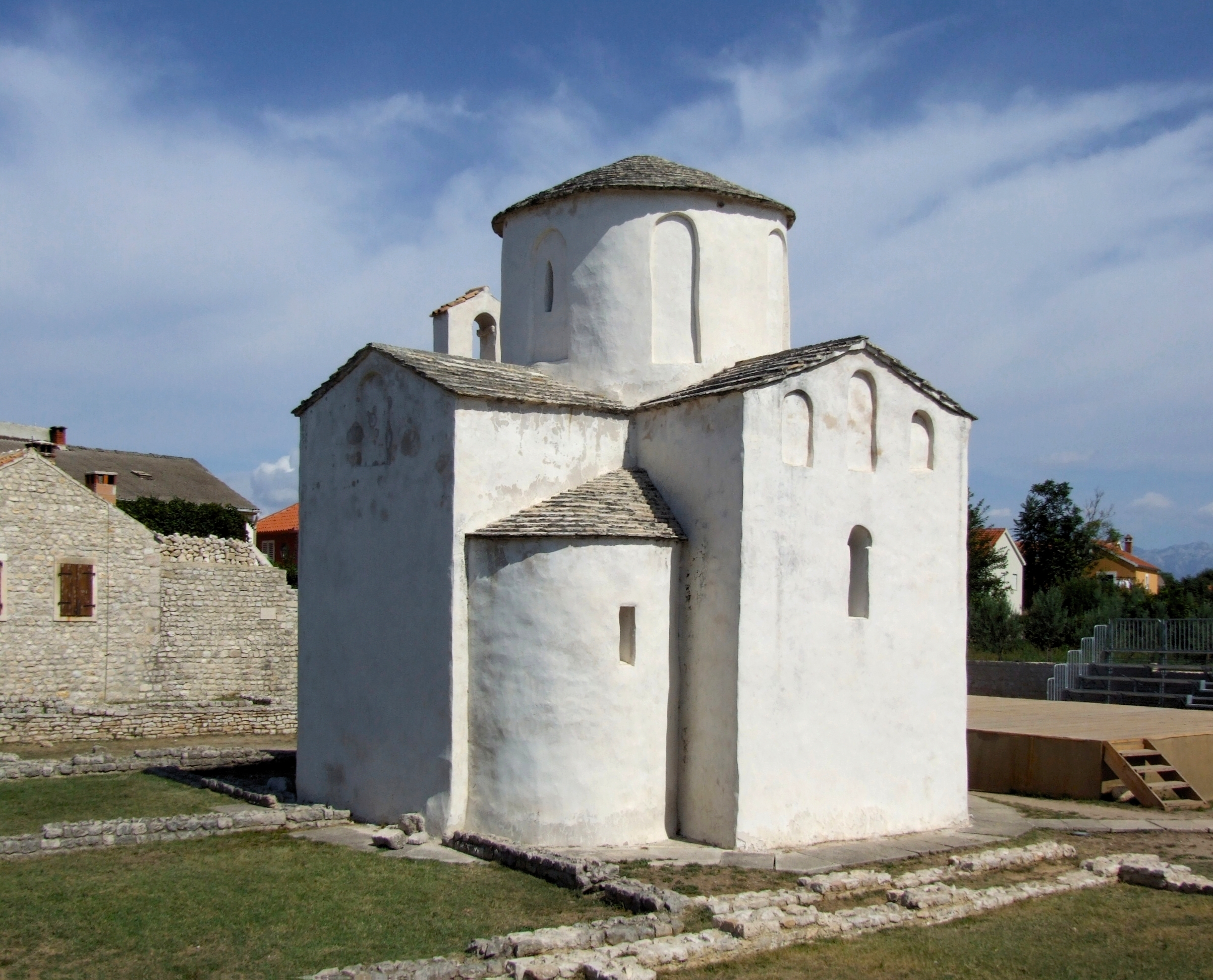 Nin, Croatia - Church of St. Cross.